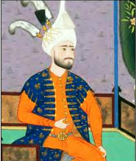 Painting of Sultan Mahmud in The Shahnama of Shah Tahmasp